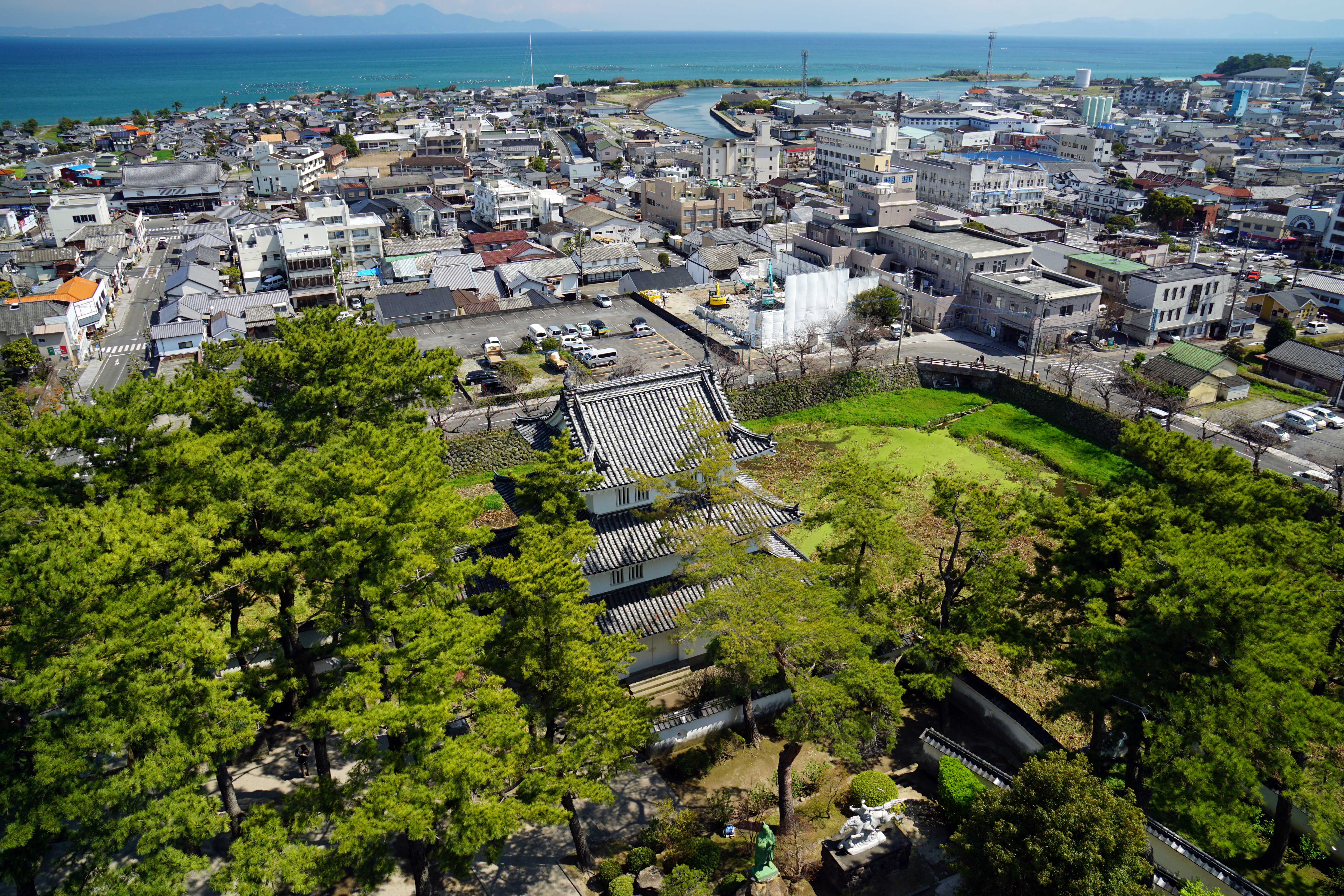 A view from Shimabara Castle in Shimabara, Nagasaki prefecture, Japan.